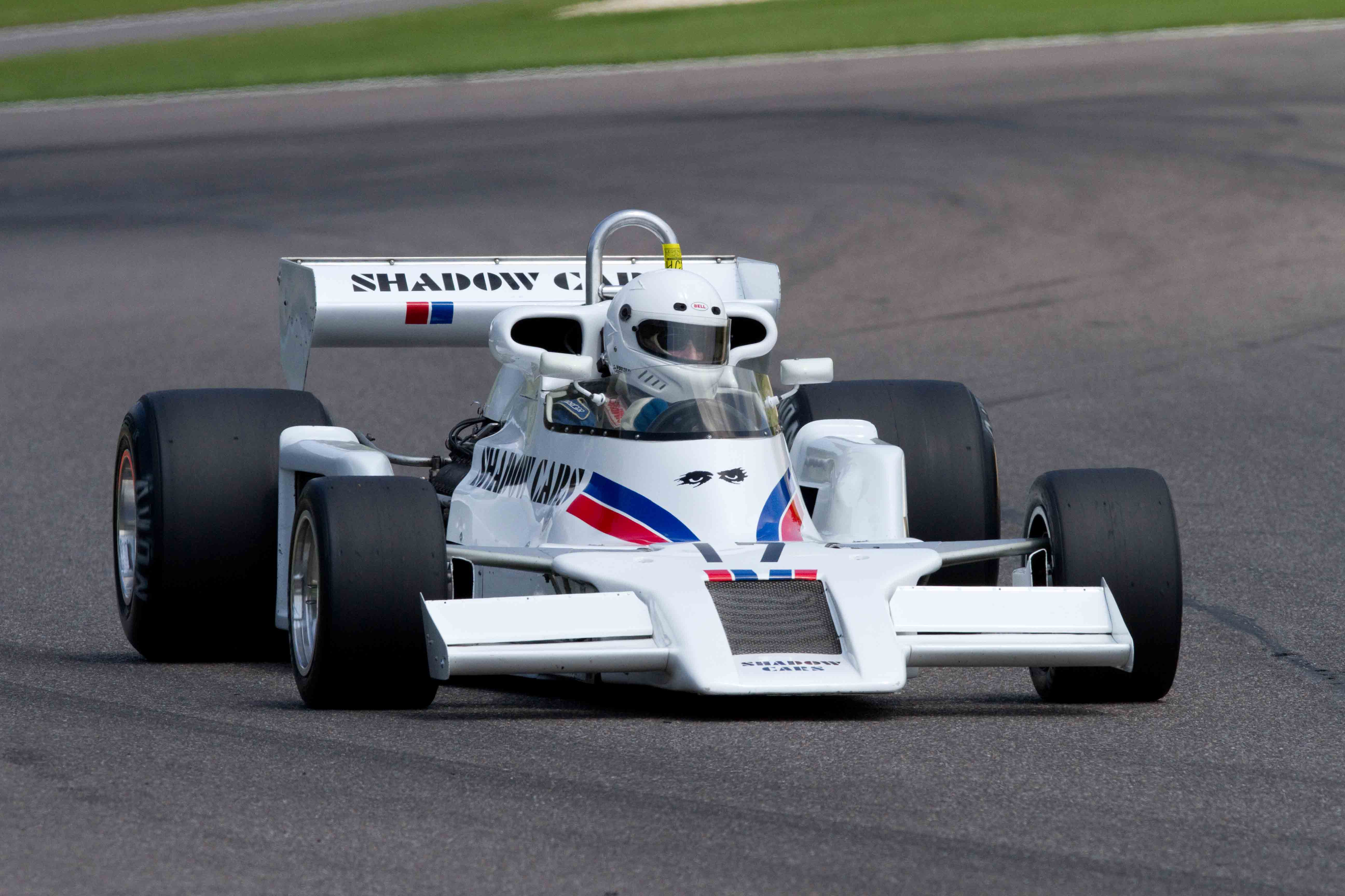 Shadow DN8 at Barber Motorsports Park, 2010